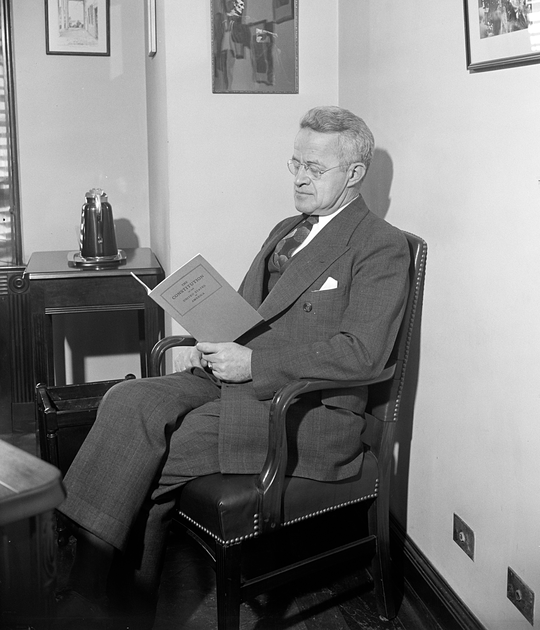 J. William Ditter, US Representative from Pennsylvania